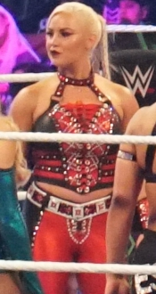 Dana Brooke at the WrestleMania 34 event on April 8, 2018